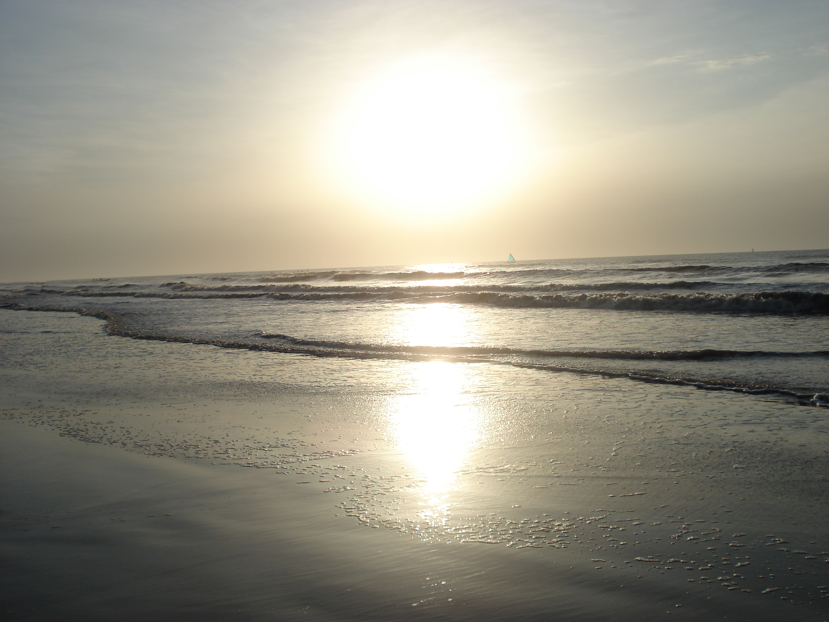 Machilipatnam Beam Early in the Morning